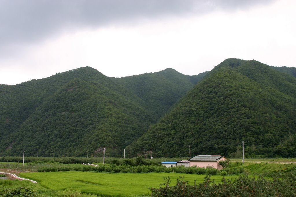 A town in Yeongdeok County, Gyeongsangbuk-do, South Korea.